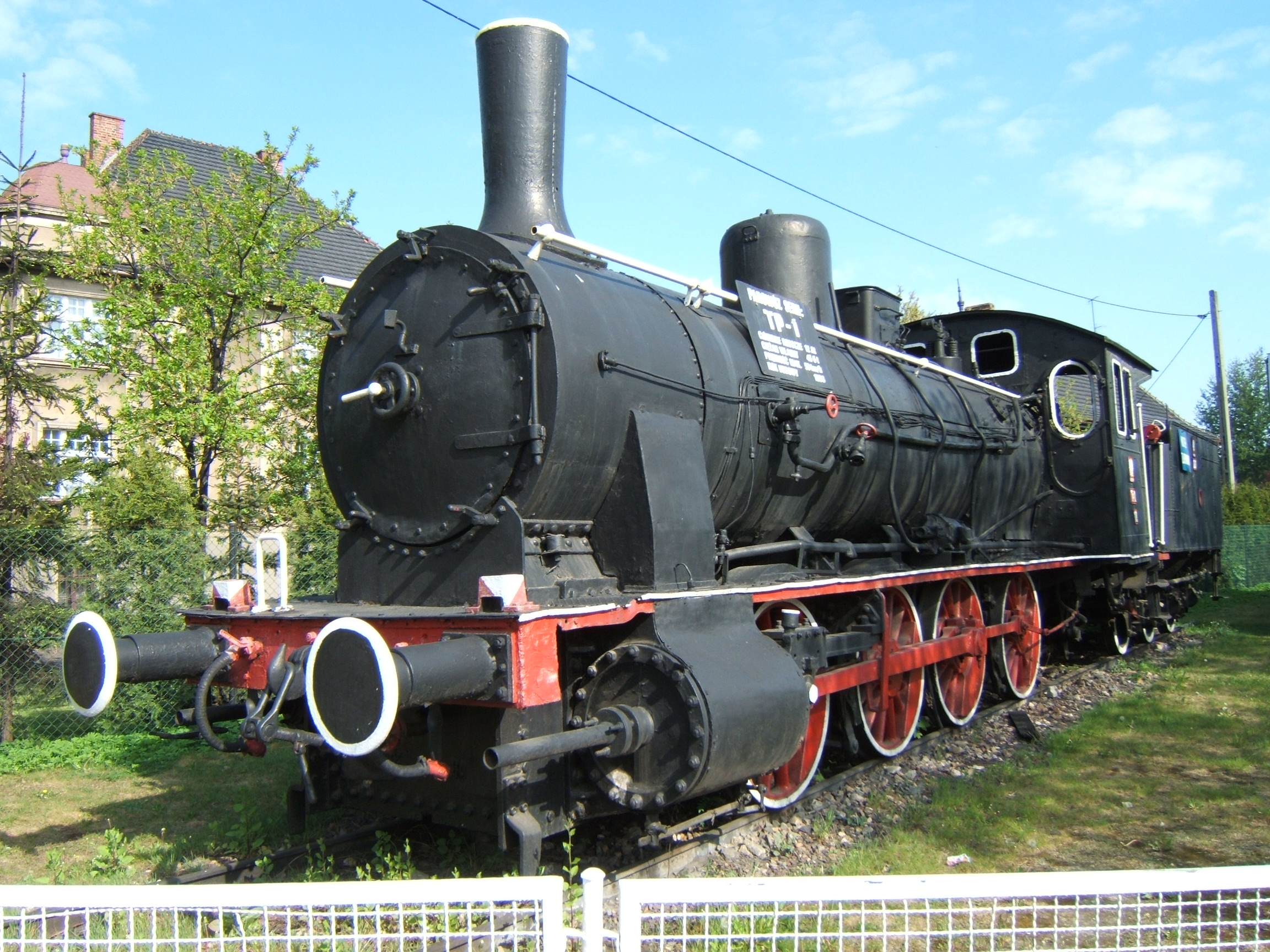 Tp1-18 steam locomotive in Tarnowskie Góry